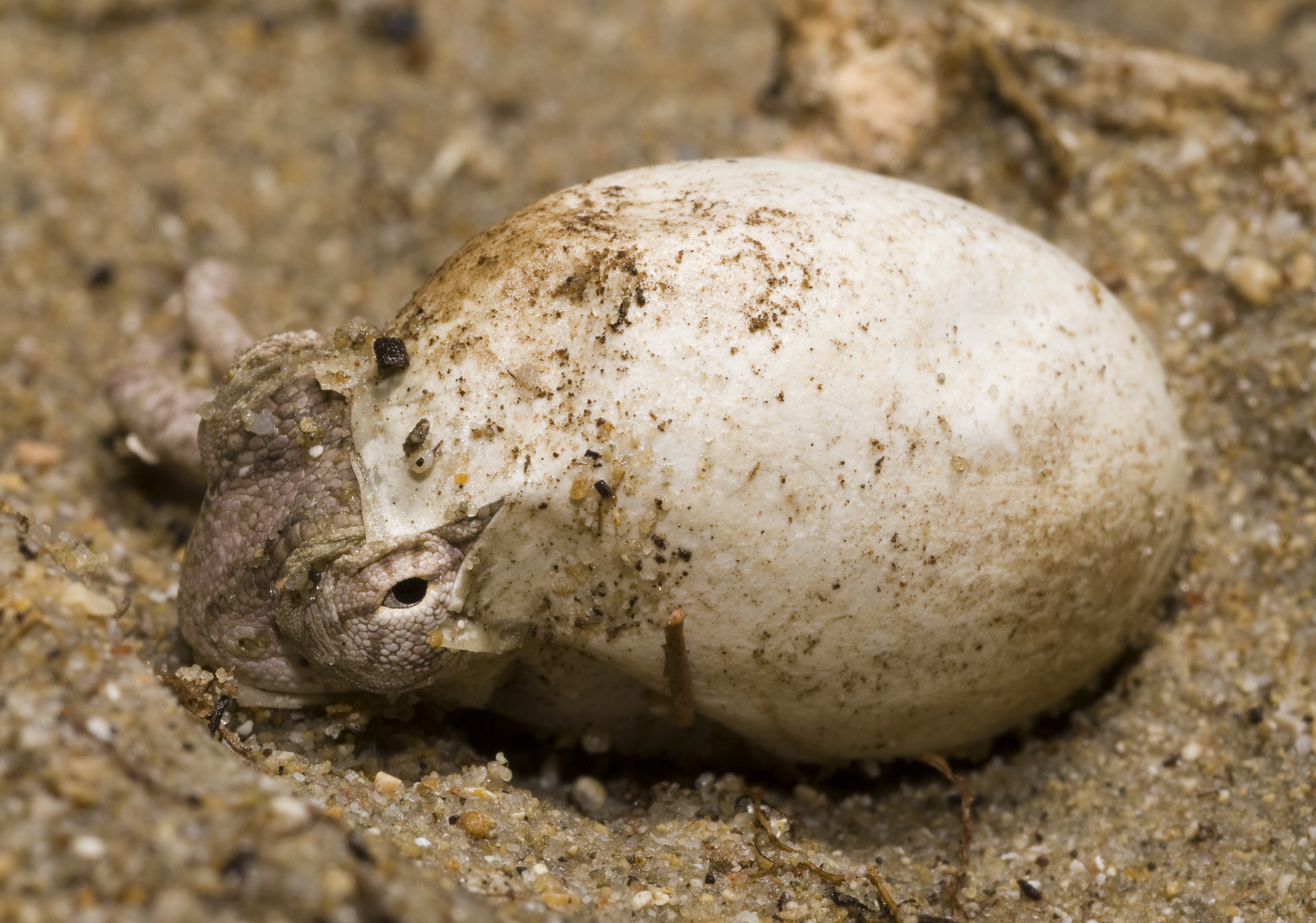 hatching Chamaeleo africanus